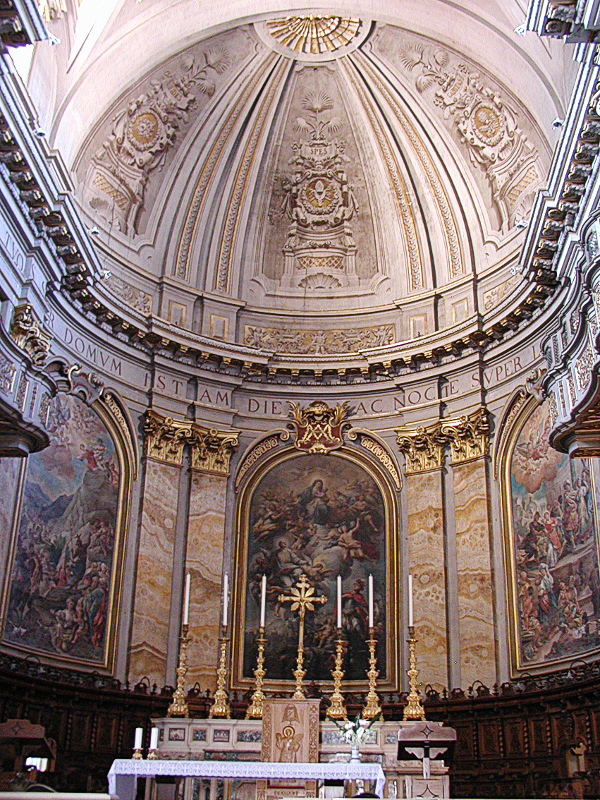 L'Aquila, Cathedral of St Maximus. Main altar.